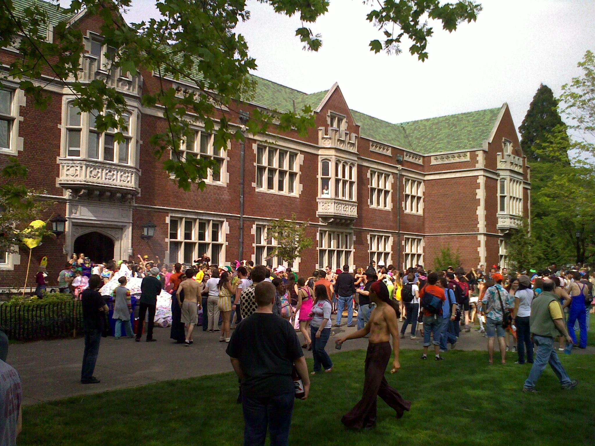 There was much "woo woo"ing